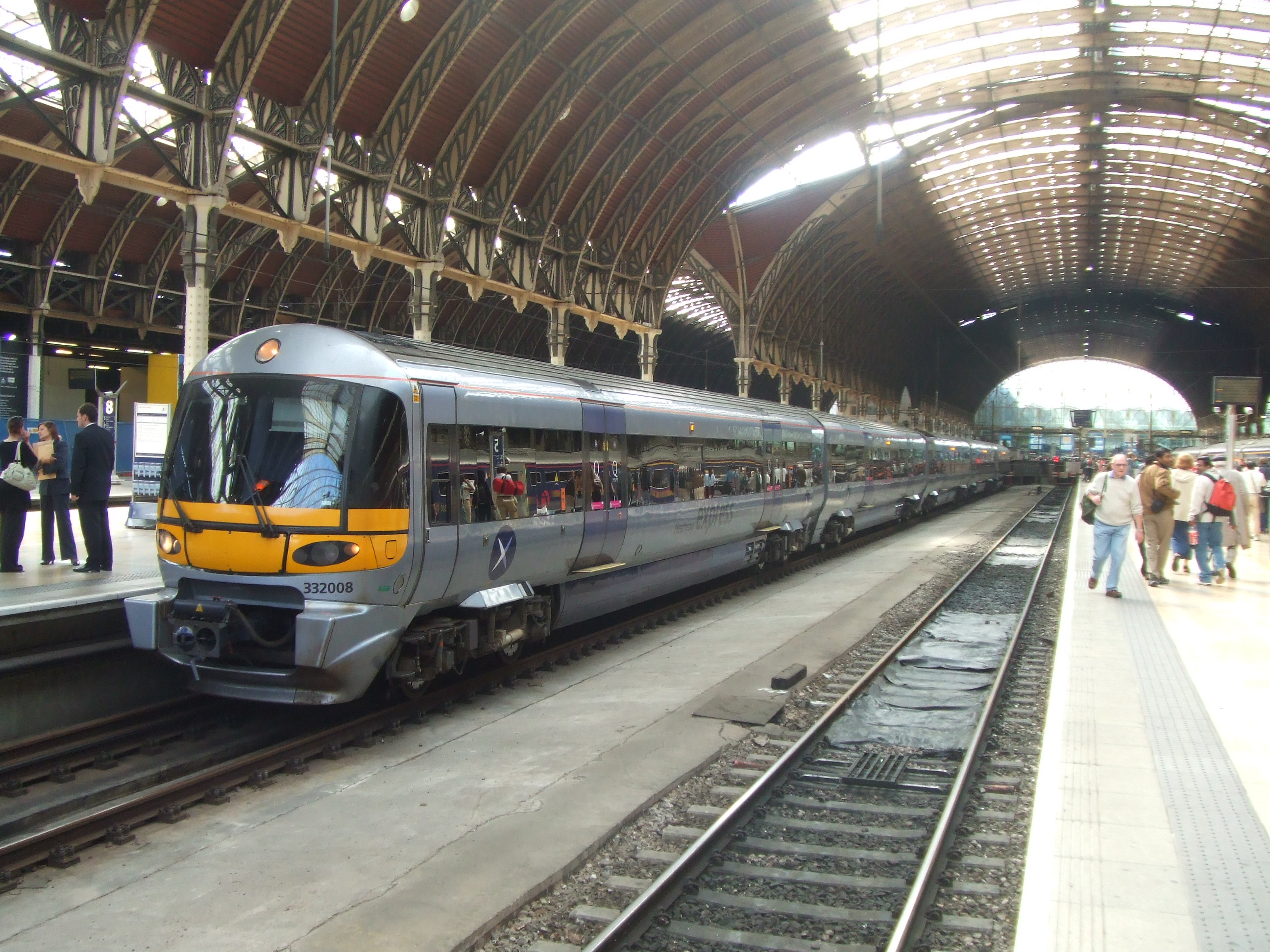 Siemens/CAF Class 332 "Desiro" "Heathrow Express" 25k v ac overhead 4-car emu No.332 008 just arrived at Paddington, 07/07.